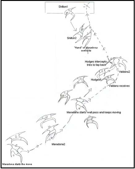 Illustration is a drawing created by me the poster, released freely to public domain. Small inset slice, is modified from the image on Wikipedia article "Hand of God Goal" and is a small excerpt of the original under fair use for educational purposes to illustrate soccer tactics and skills. From the exact same image minus a fair use image used for decoration - the original image was released into the public domain by Enriquecardova (talk · contribs)